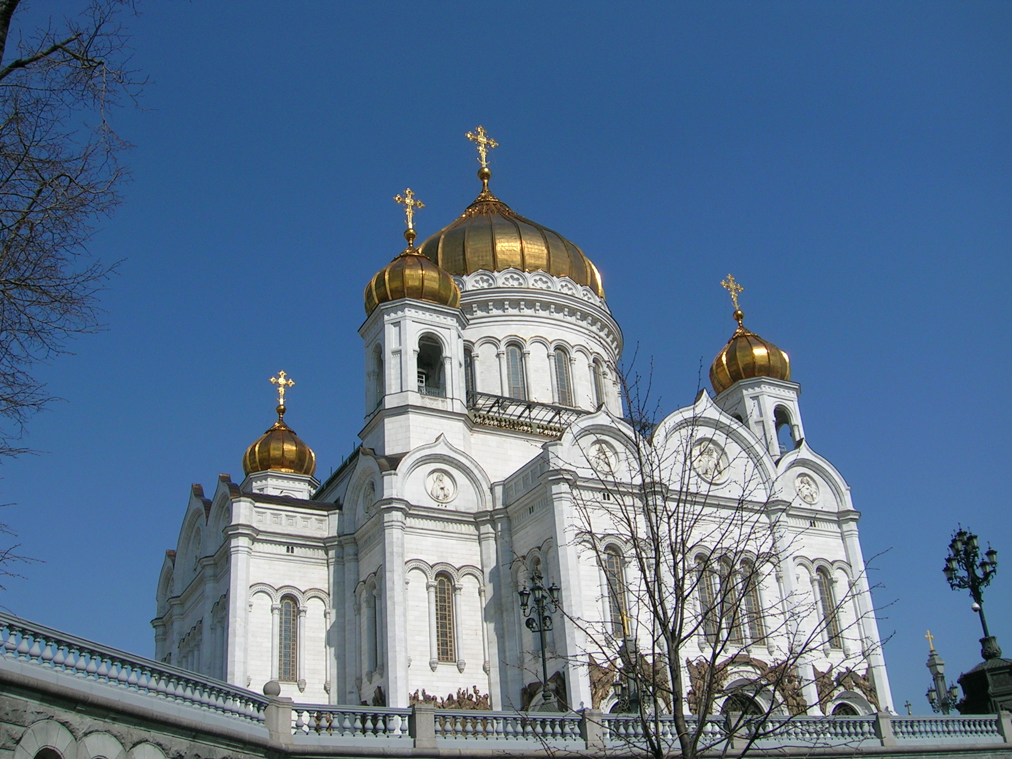 Cathedral of Christ the Saviour. Moscow, Russia. View from a pedestal.